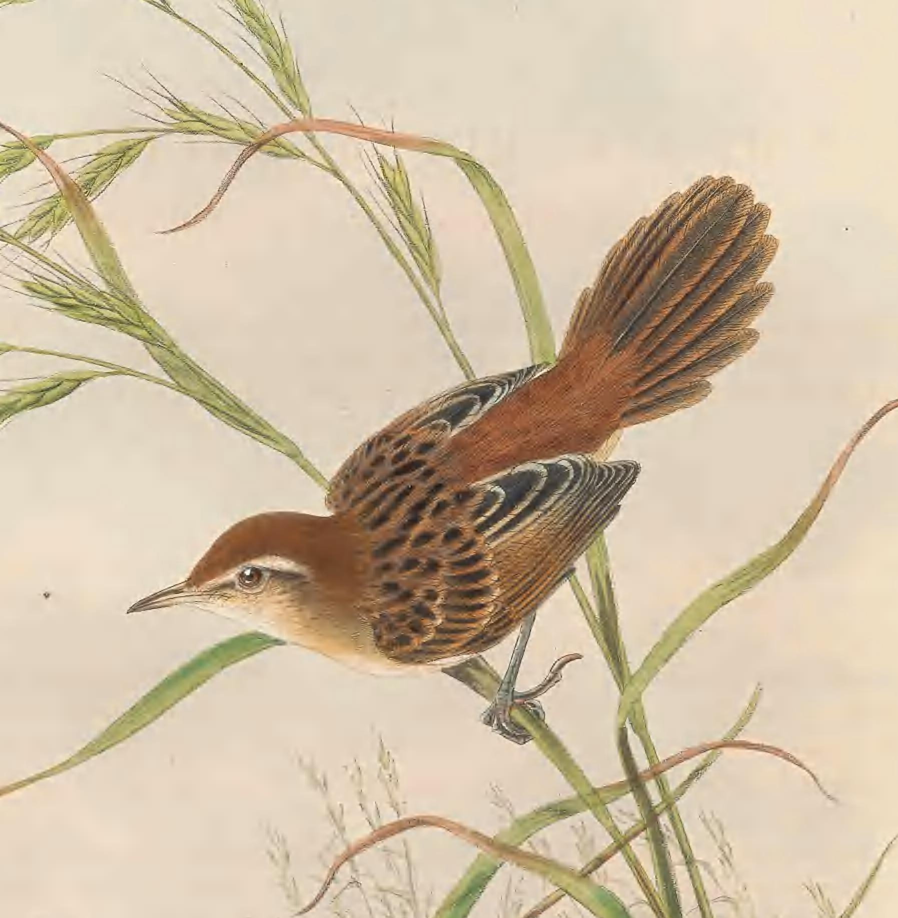 Megalurus albolimbatus in The birds of New Guinea and the adjacent Papuan islands, including many new species recently discovered in Australia. v.3 (Plate 12).